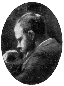 Image scanned from the book "Svenskt Porträttgalleri XX - Arkitekter, Bildhuggare, Målare m.fl. " ("Swedish Portrait Gallery XX - Architects, Sculptors, Painters, ") published 1901